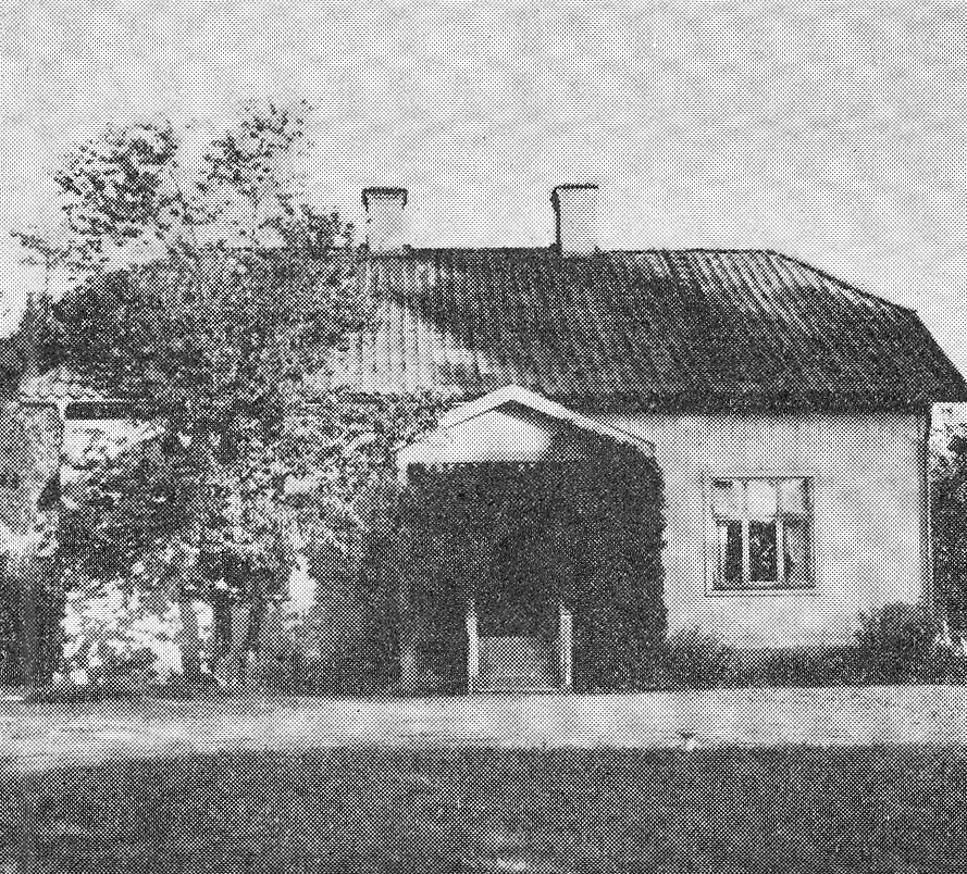 The farm "Rosta" outside Örebro, Sweden